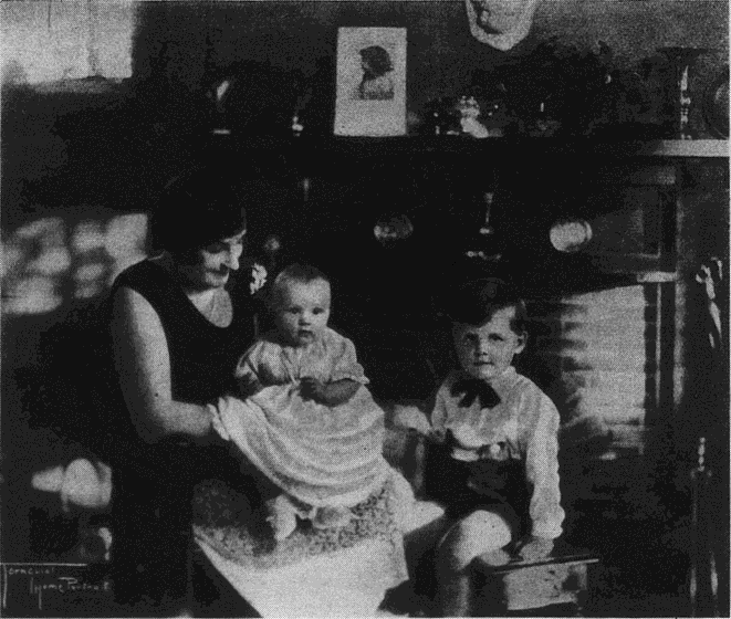 Original caption read: "MRS GUY B. CHAPMAN, of Epsom, with her two children, ROBERT and ANITA